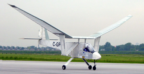 Credit: Institute for Aerospace Studies No jet engine, no propeller. This ornithopter, designed by James DeLaurier and researchers at the University of Toronto's Institute for Aerospace Studies, is designed to fly by flapping its wings.